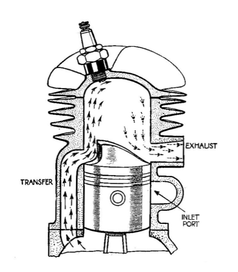 How the ports are arranged in a two-stroke motor cycle engine. Either a deflector piston or a special arrangement of tangentially inclined ports may be used to admit the fresh charge (solid arrows) and keep it from contamination with the burnt gases seen exhausting (dotted arrows).